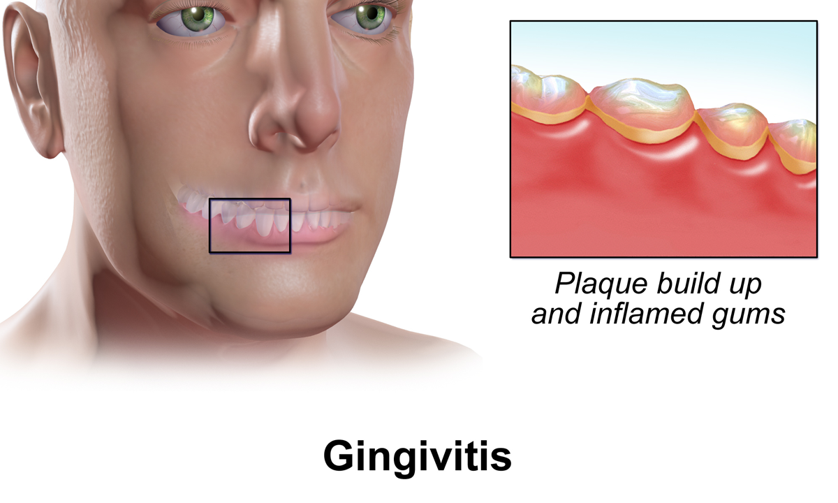 Gingivitis. See a full animation of this medical topic.